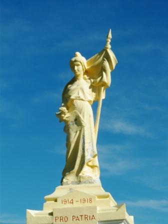 The monument aux morts at St Quentin-en-Tourmont.